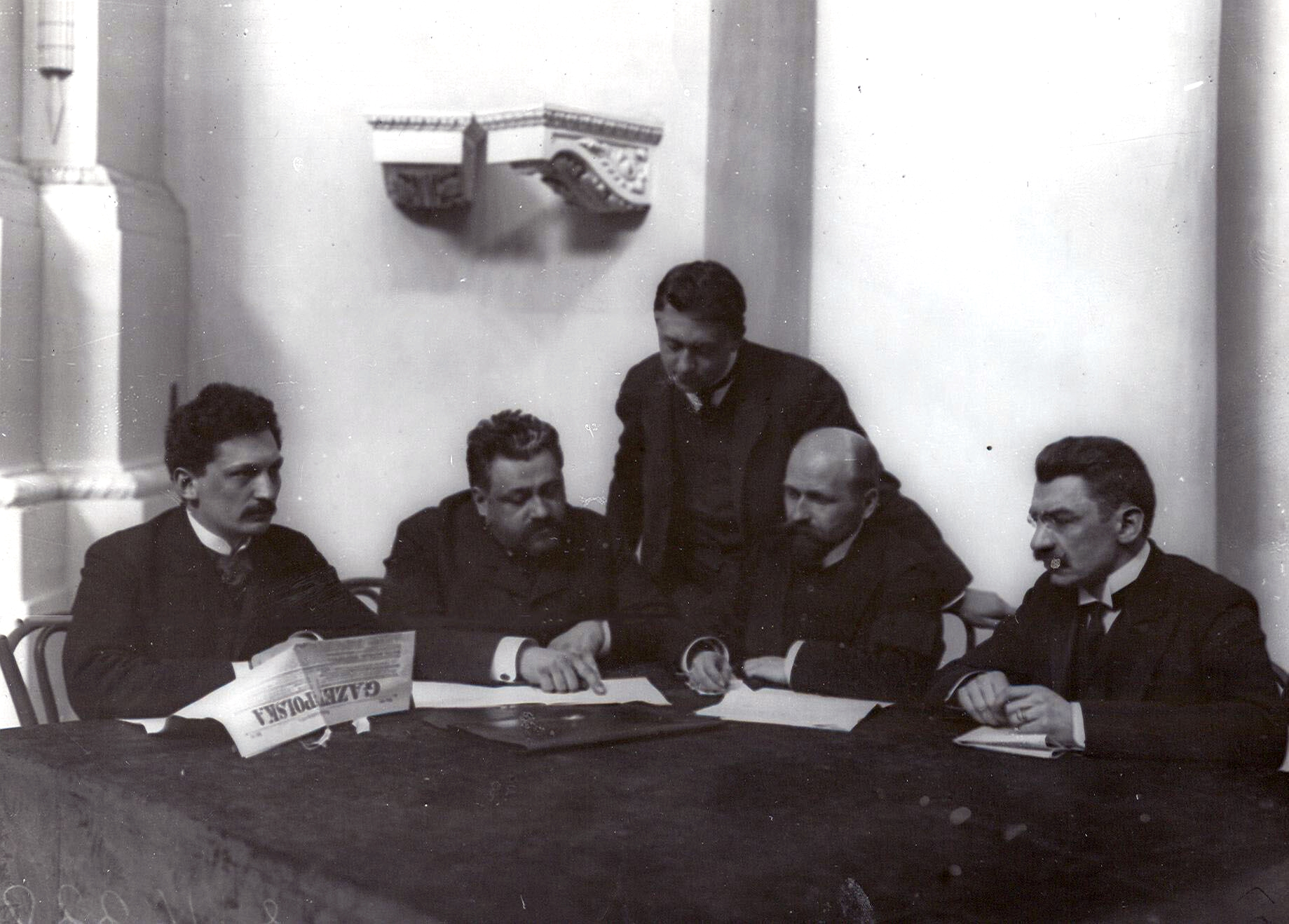 Polish members of the second Russian State Duma in the Tavricheskiy Palace, 1907